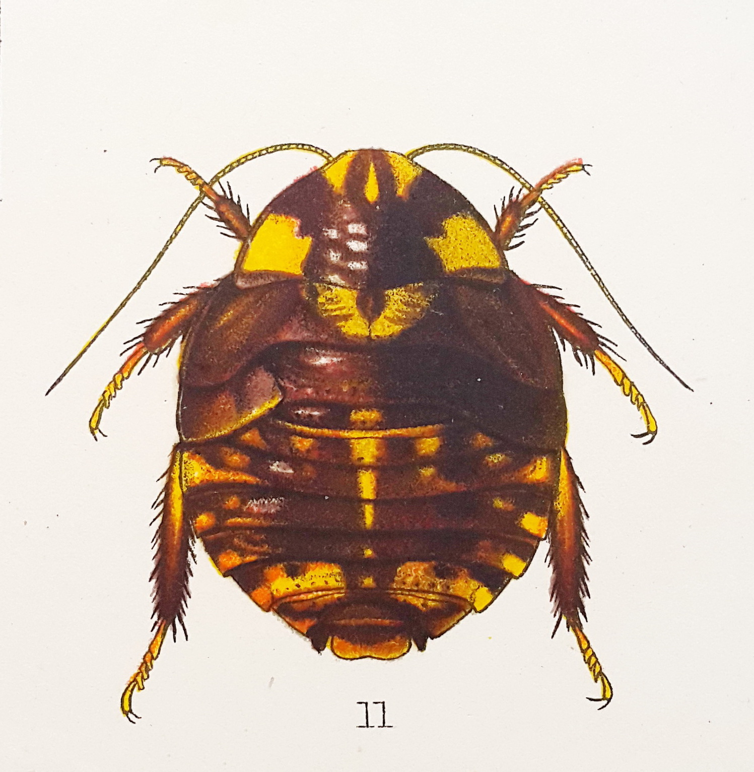 (Apotrogia angolensis) = Acanthogyna deplanata Chopard